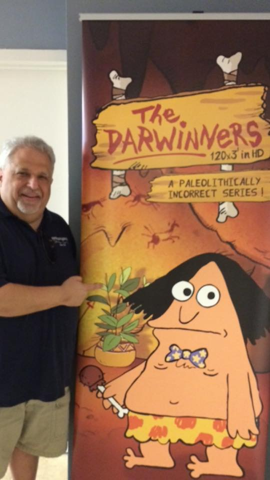 Tom on the Darwinners set.